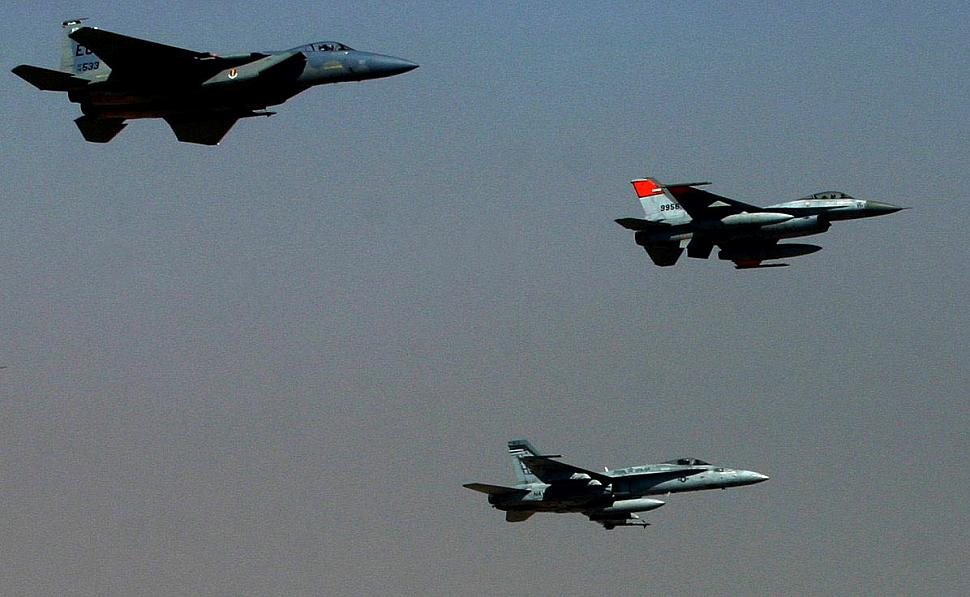 EAF F-16C block 40 #9956 flies over Egypt with a USN F/A-18 and a USAF F-15 on September 28th, 2005. The aircraft were participating in Bright Star 2005/2006. [USAF photo by Cpl. Andy Hurt]